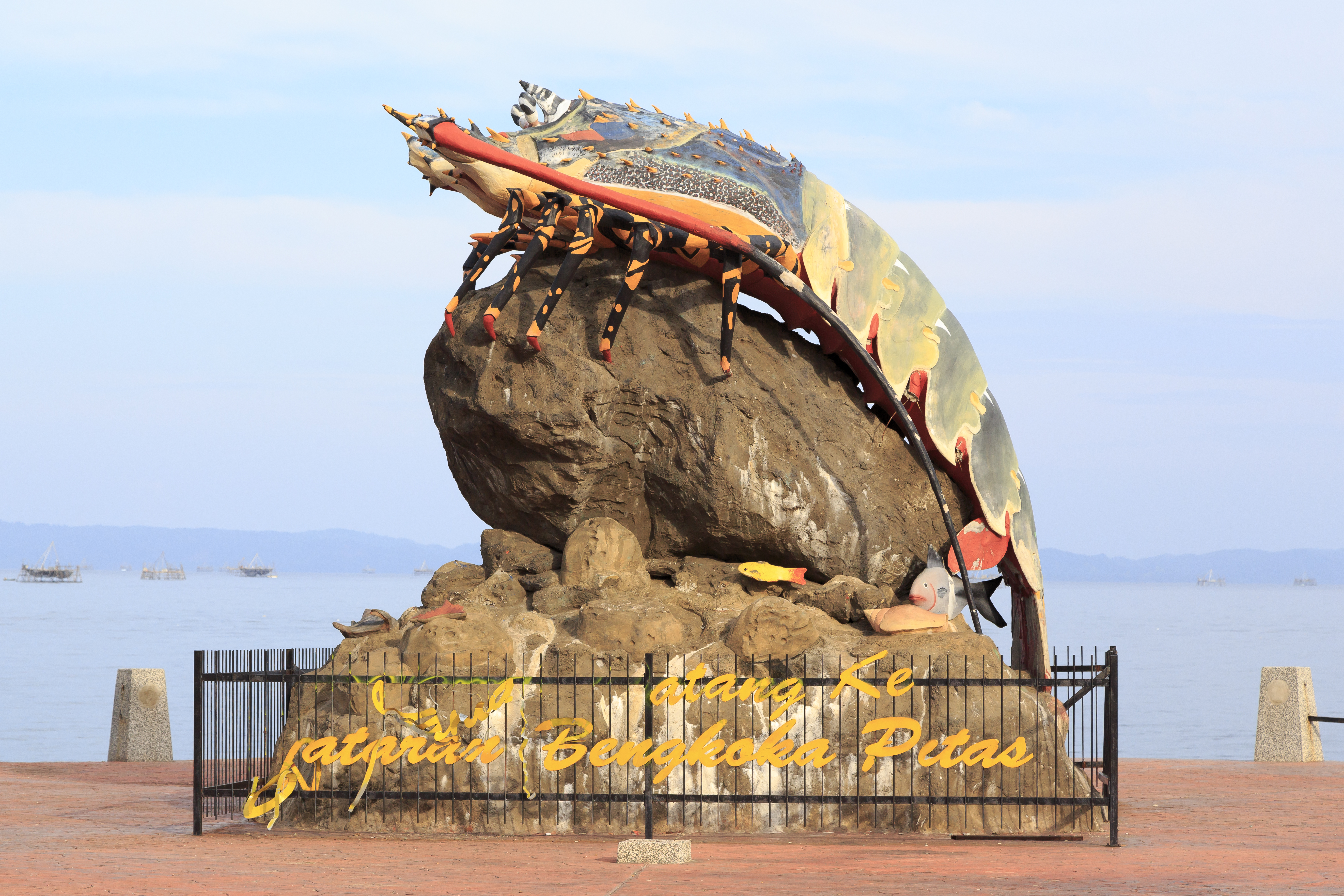 Benkoka, Sabah: Dataran Benkoka Pitas